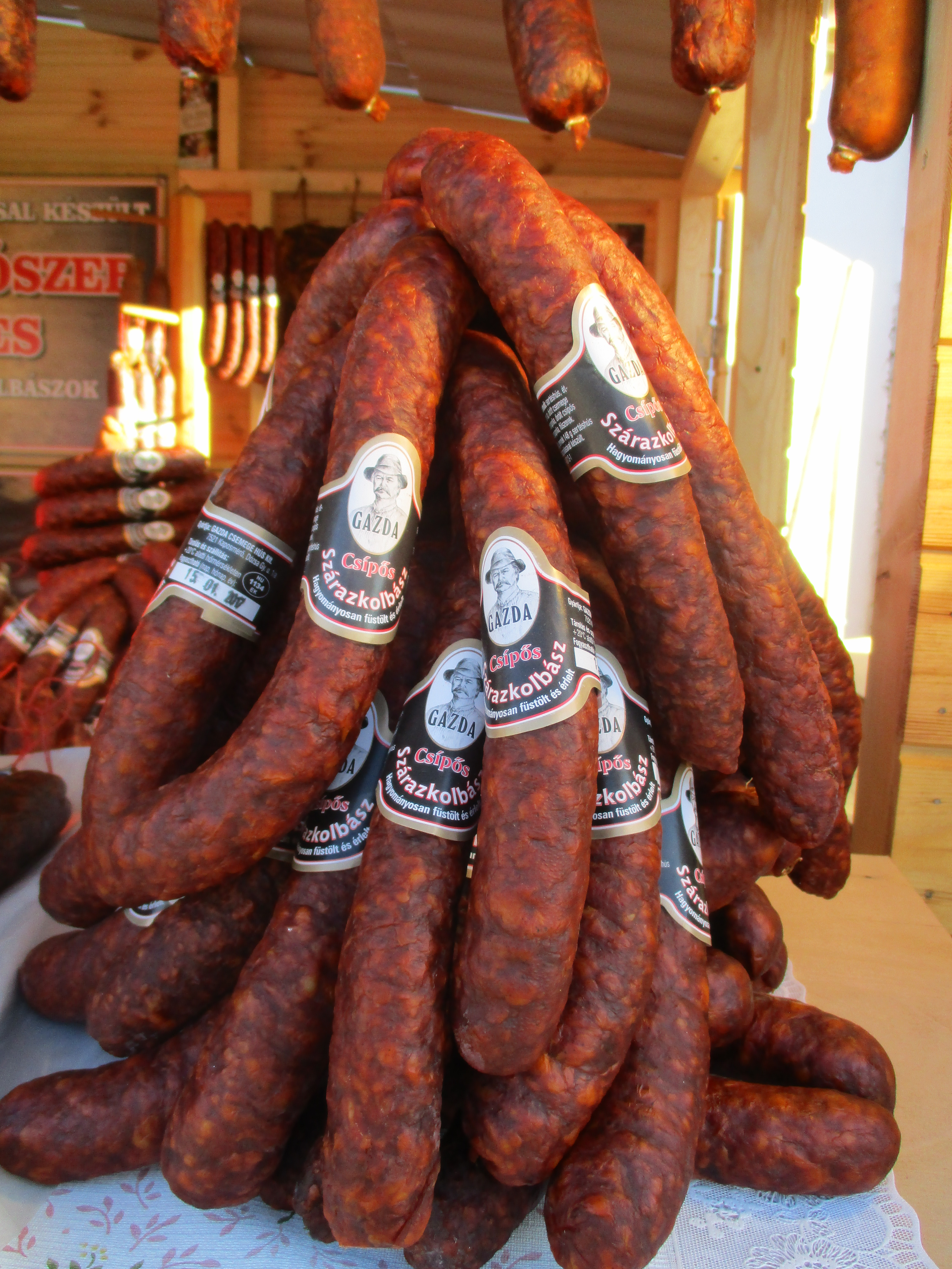 Pork Meat & Sausage Festival Budapest 2016